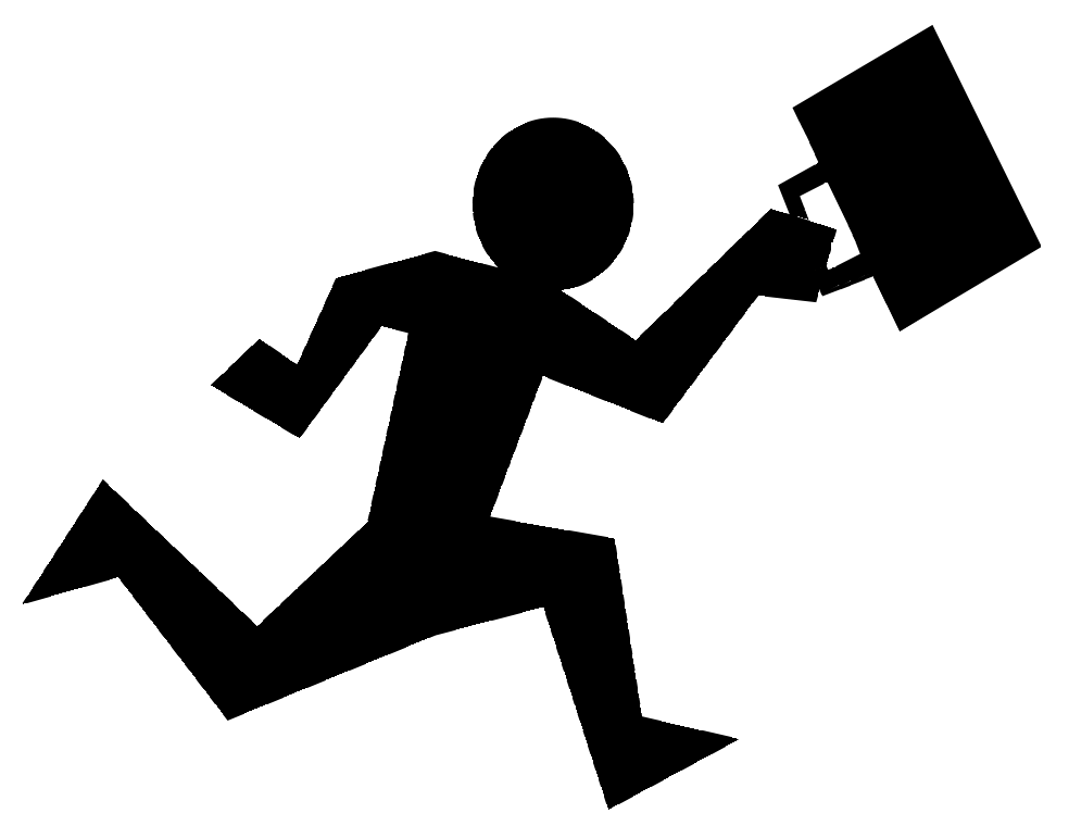 An artist's depiction of the rat race in reference to the work and life balance. See Rat_race Made with following images